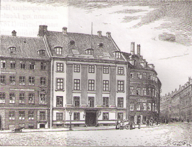 Drawing of Den Suhrske Gård in Gammeltorv in Copenhagen, Denmark